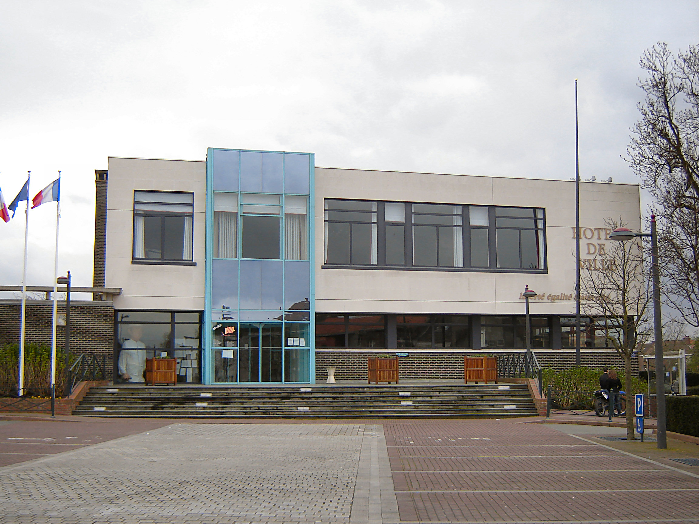 Town hall of in Neuville-en-Ferrain. Neuville-en-Ferrain, Nord, Nord-Pas-de-Calais, France